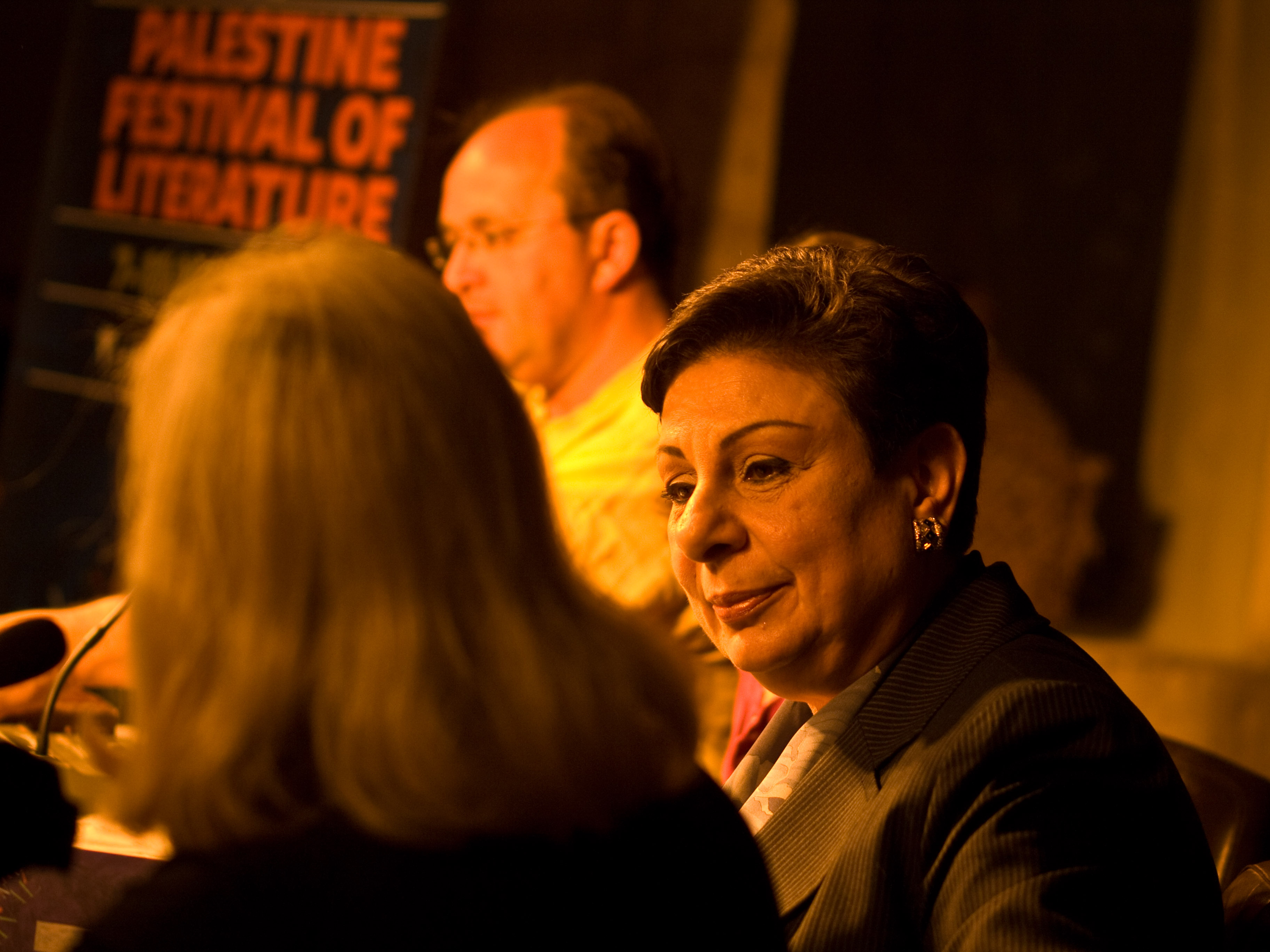 PalFest 2008 Dr. Hanan Ashrawi moderates the first ever event